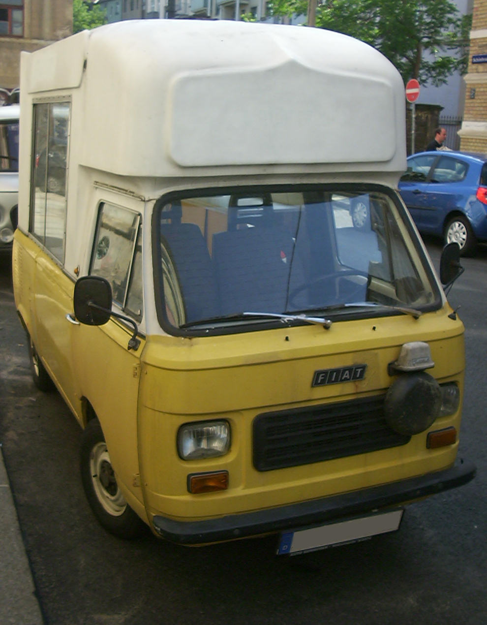 Fiat 900 T